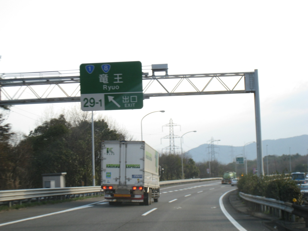 sign of Ryuo interchange